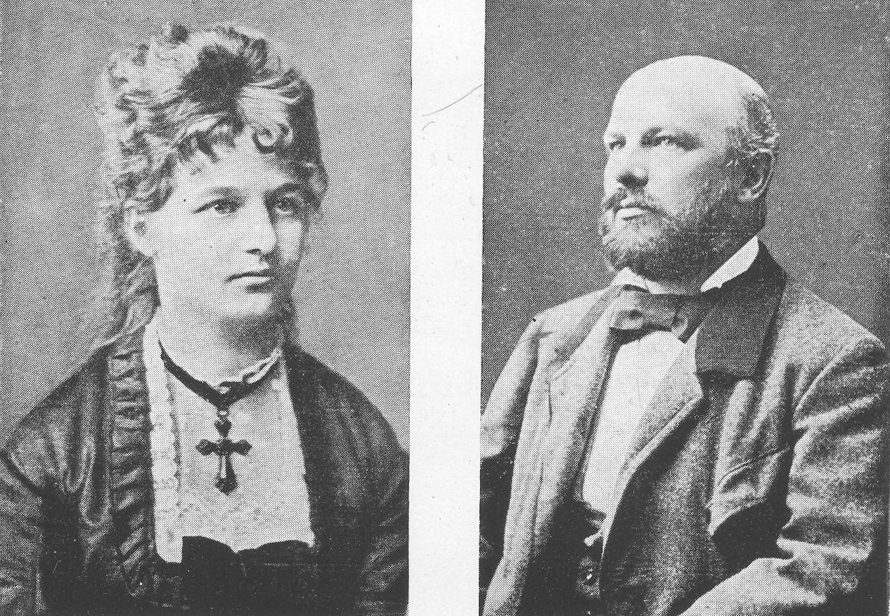 Žofie (1853-1902) and Josef Schwarz, a daughter and a son-in-law of Bedřich Smetana. Photographs from 1880s